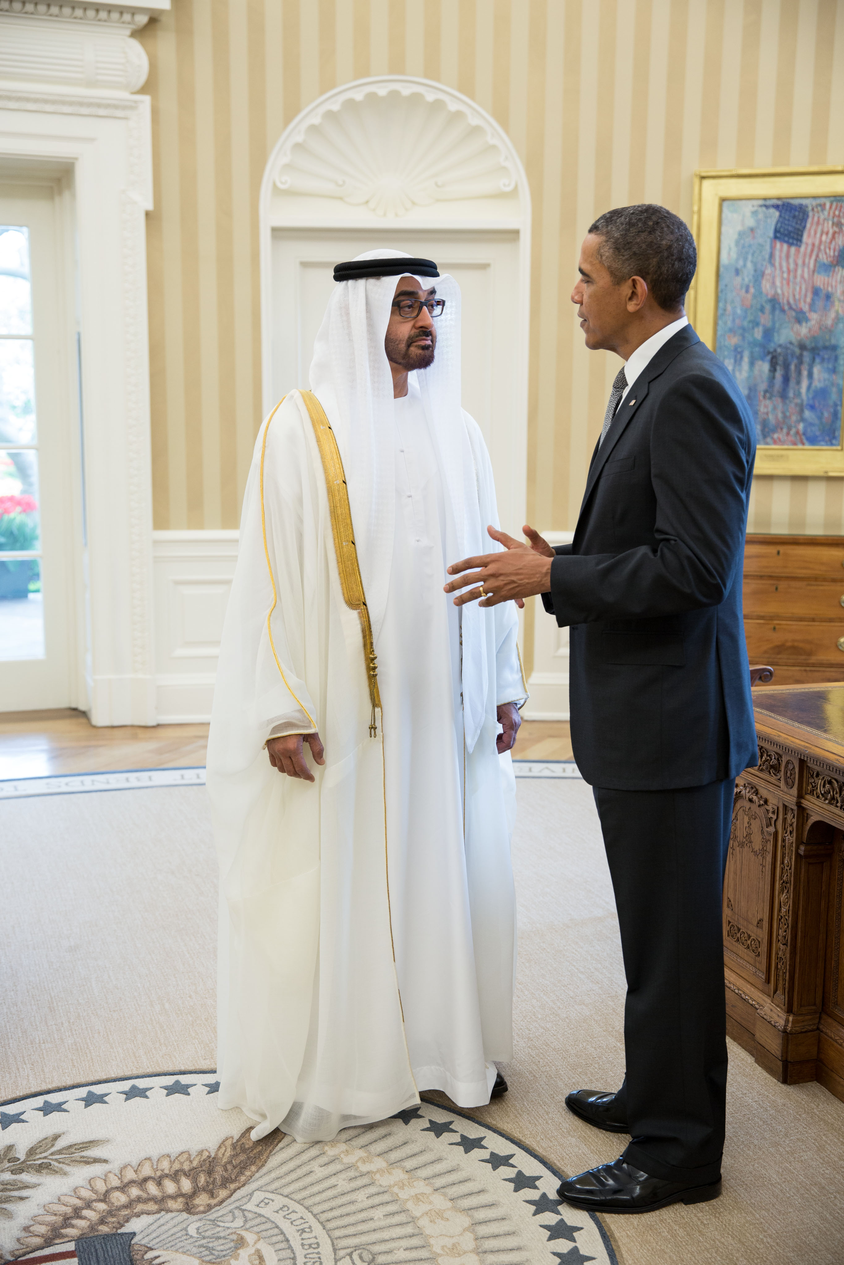 President Barack Obama greets the United Arab Emirates' Sheikh Mohammed bin Zayed Al Nahyan, Crown Prince of Abu Dhabi and Deputy Supreme Commander of the UAE Armed Forces, in the Oval Office, before their lunch, April 16, 2013. (Official White House Photo by Pete Souza)